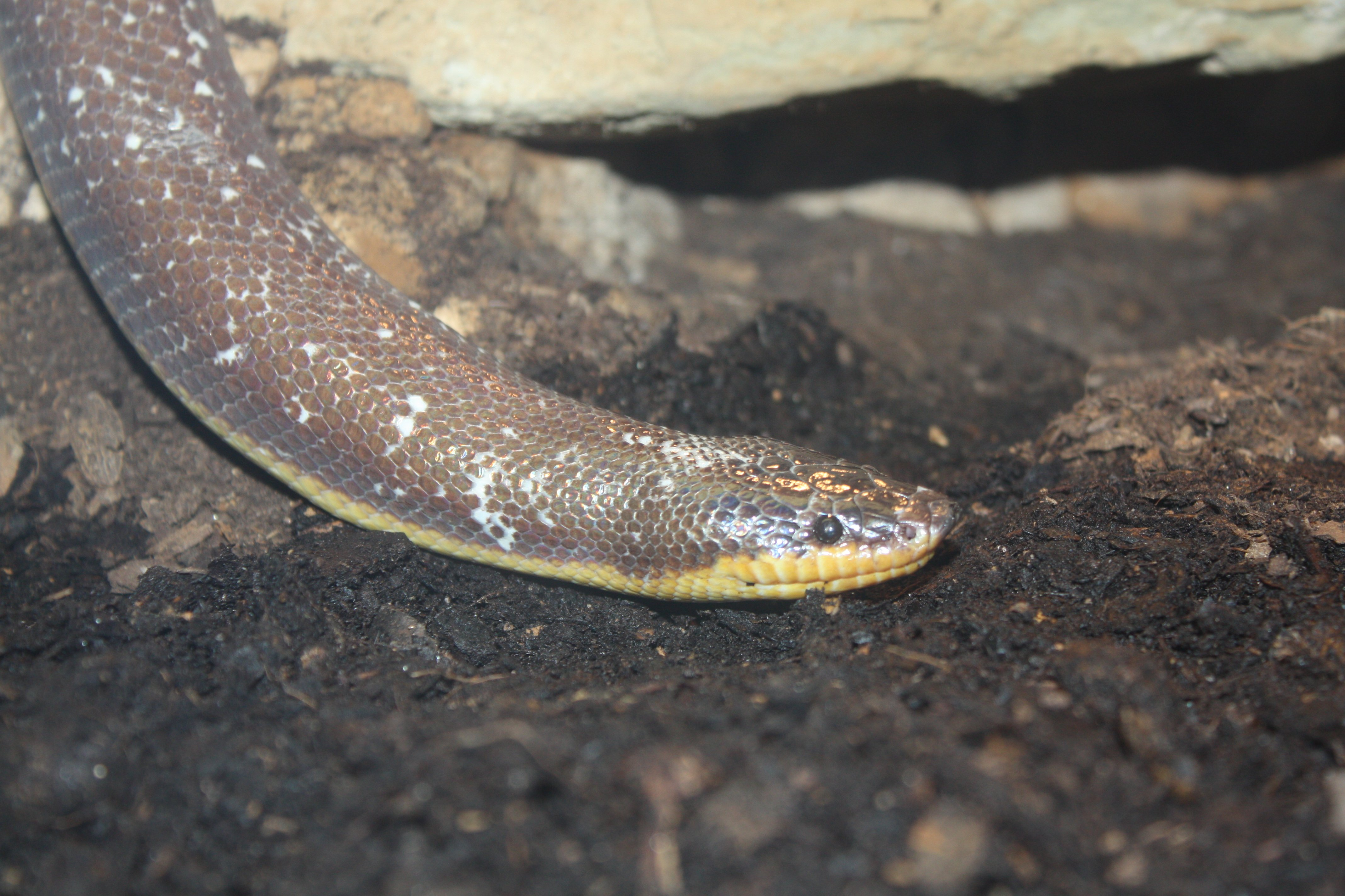 Mexican Burrowing Python Loxocemus bicolor at the Louisville Zoo